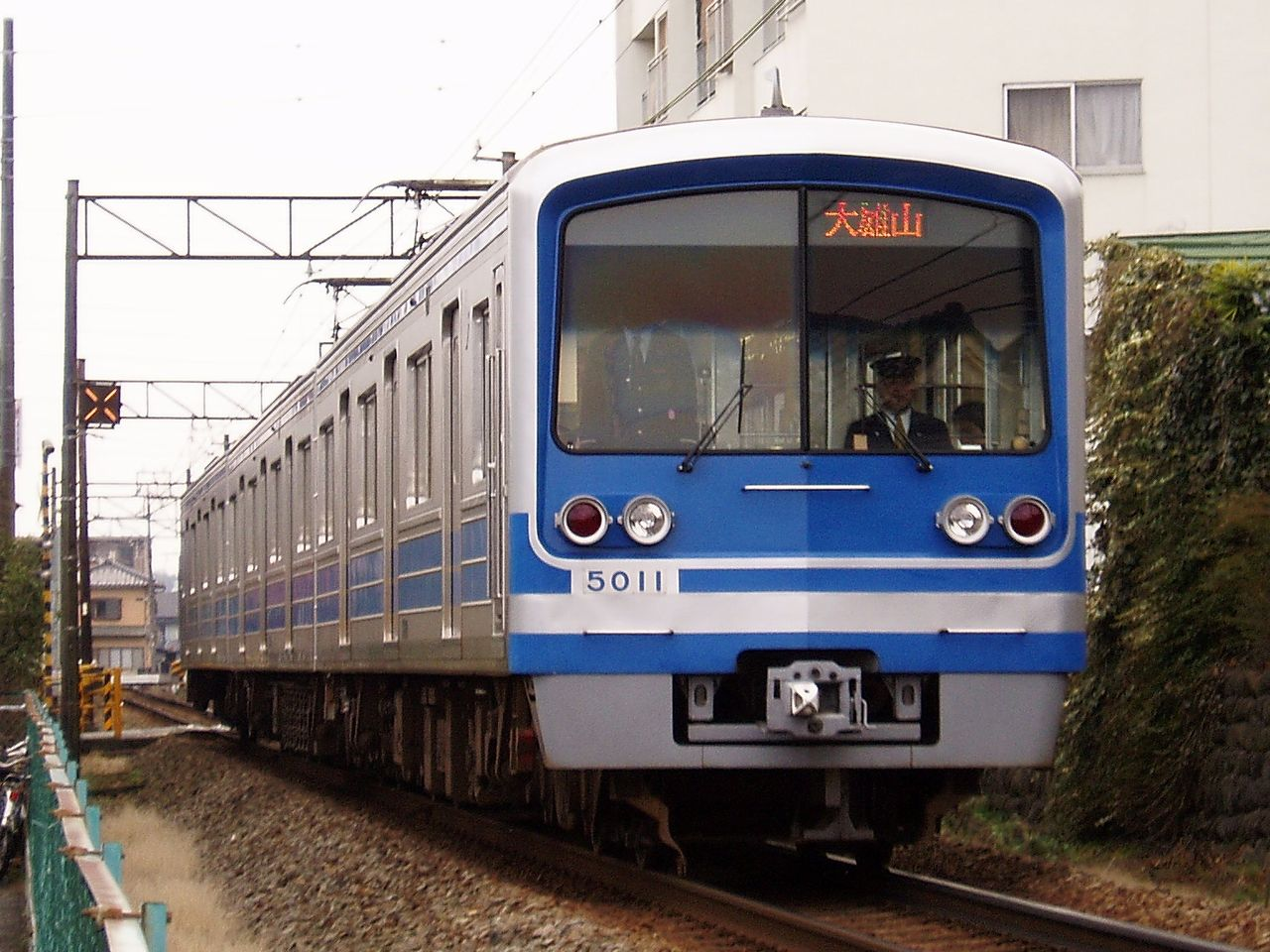 Izuhakone Railway 5000 Series train. Photograph taken by Cassiopeia sweet. Originally uploaded to Japanese Wikipedia by the photographer.